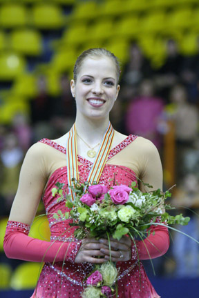 2008 European Figure Skating Championships - Carolina Kostner